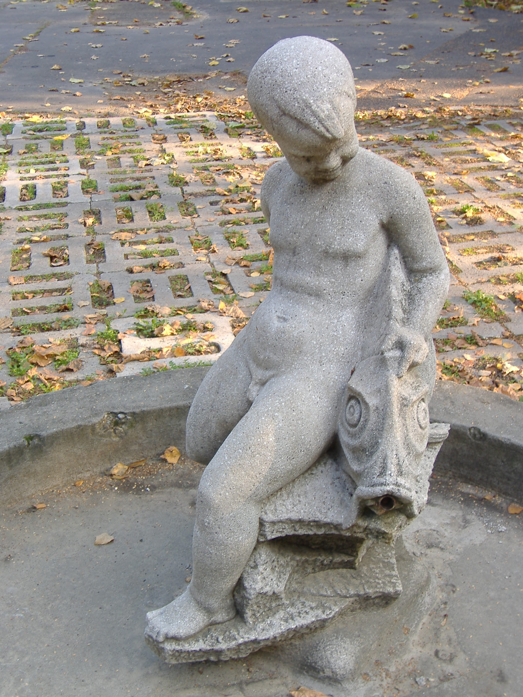 The Putto statue in Makó, Hungary; sculptor is Gyula Nagy.